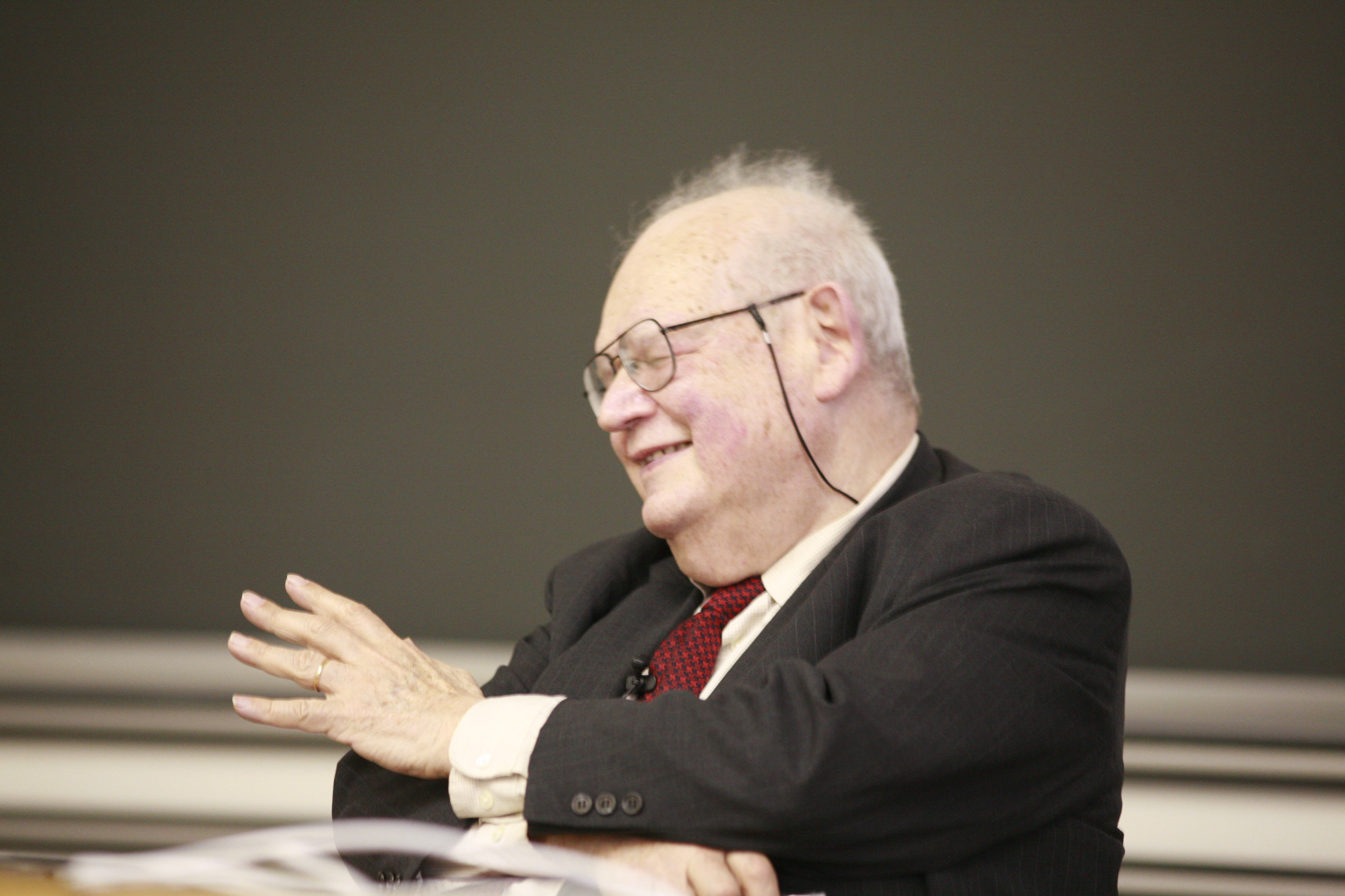 Benoît Mandelbrot at the EPFL, on the 14h of March 2007